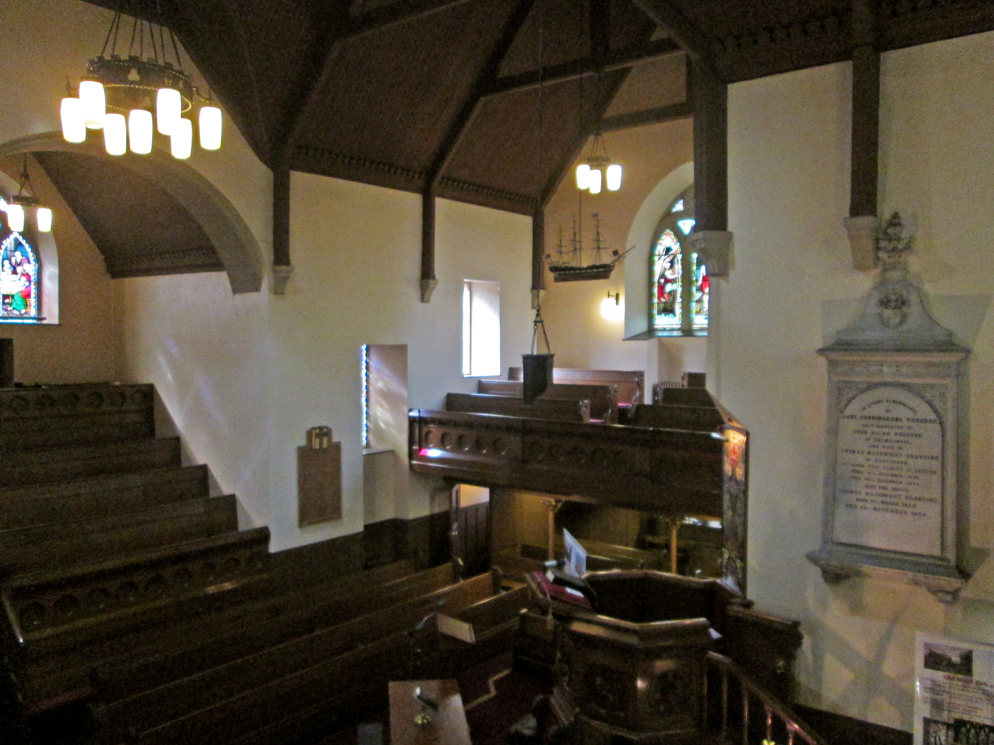 The Old West Kirk in Greenock, view from the Choir Gallery (above the Cartsburn Aisle) looking towards the Sailor's Loft, with the Laird's Loft to the left. A scale model of a 20-gun frigate is suspended above the Sailor's loft, and the pulpit is in the foreground.